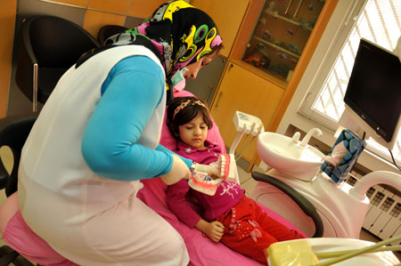 Pediatric dentistry